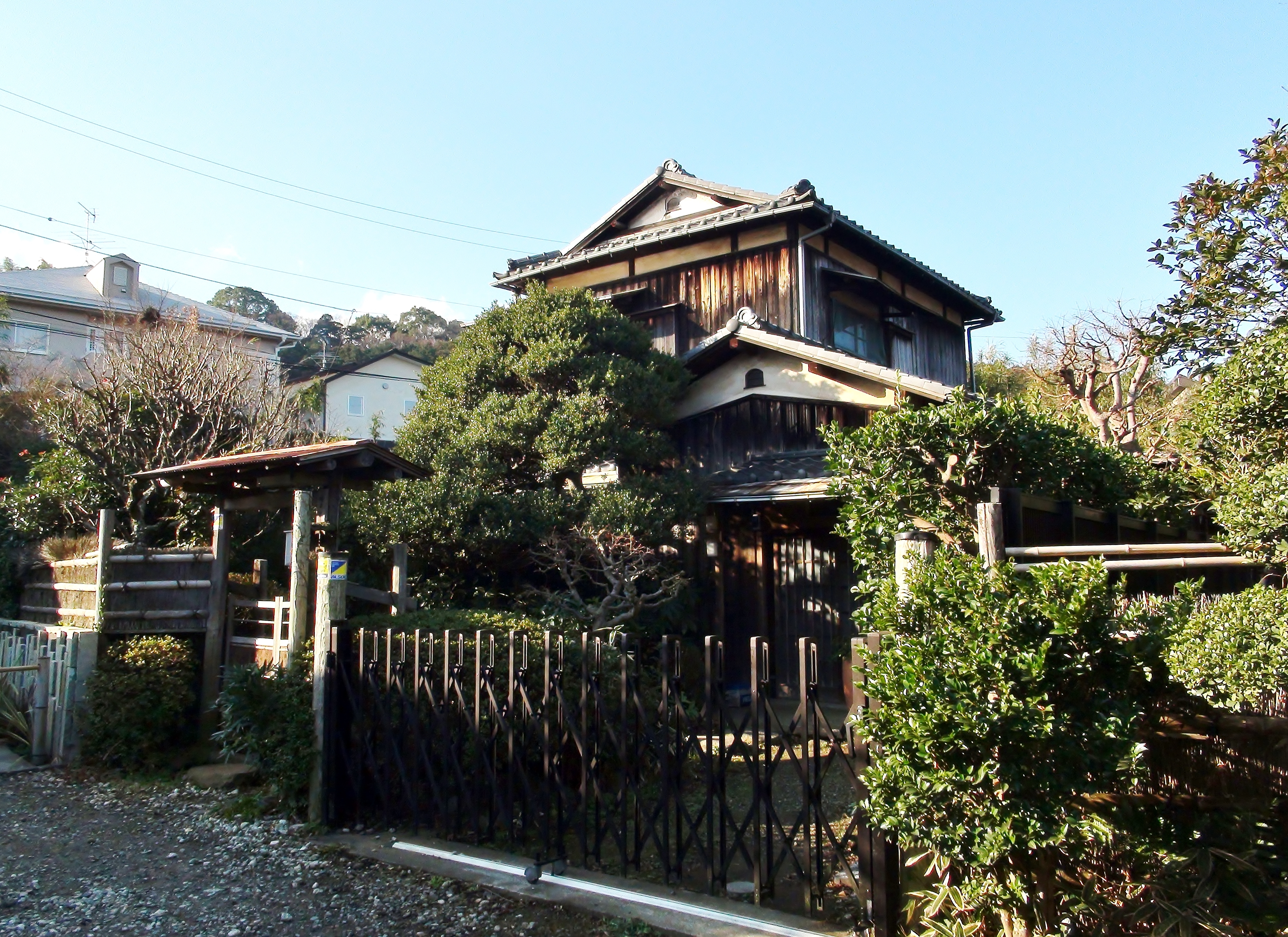 The film location, "Our Little Sister" Japanese house. (Japanese original title "Umimachi diary" ). The GPS data removed it intentionally.